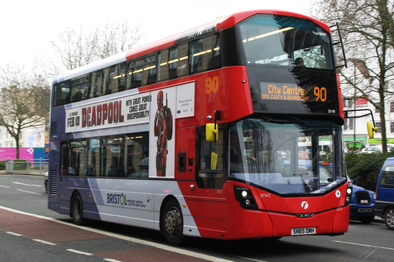 Fisrt Bristol's 35140, a Wright StreetDeck registered SN65OMH) arrives in the city centre on route 90 from Hengrove.